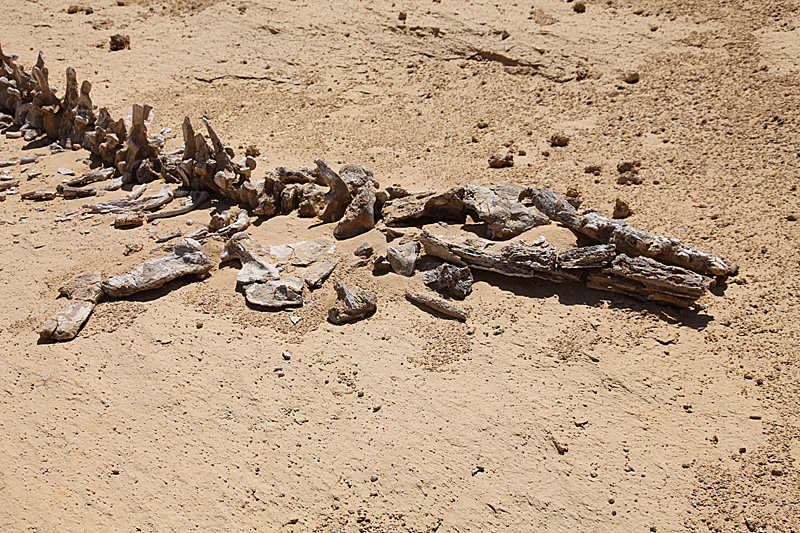 Skeleton of a Dorudon, Whale Valley (Wadi el-Hitan), Libyan desert, Egypt